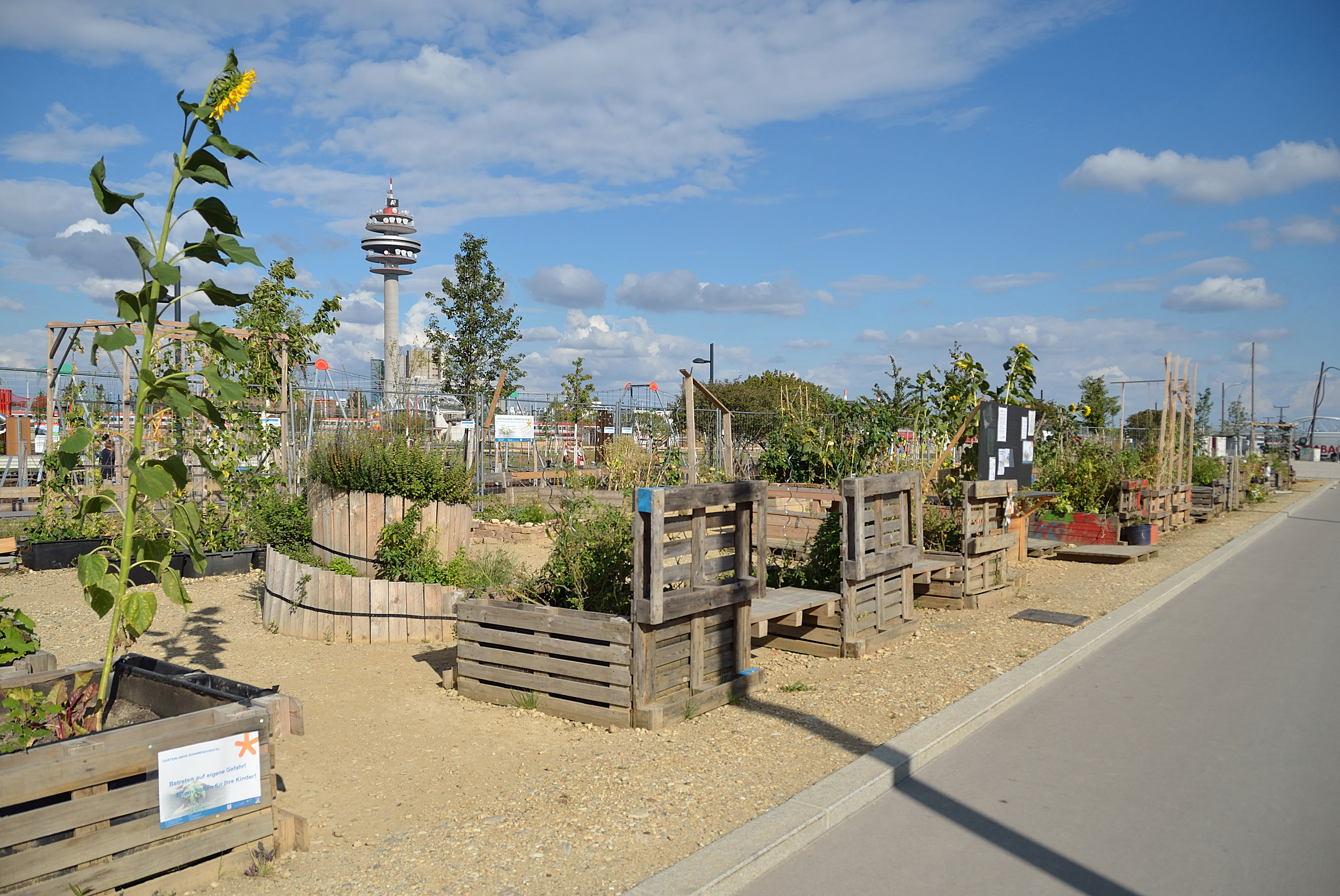 Helmut-Zilk-Park in Favoriten, Vienna, is a park built 2015 to 2017 on the area of former Südbahnhof, now called Sonnwendviertel.